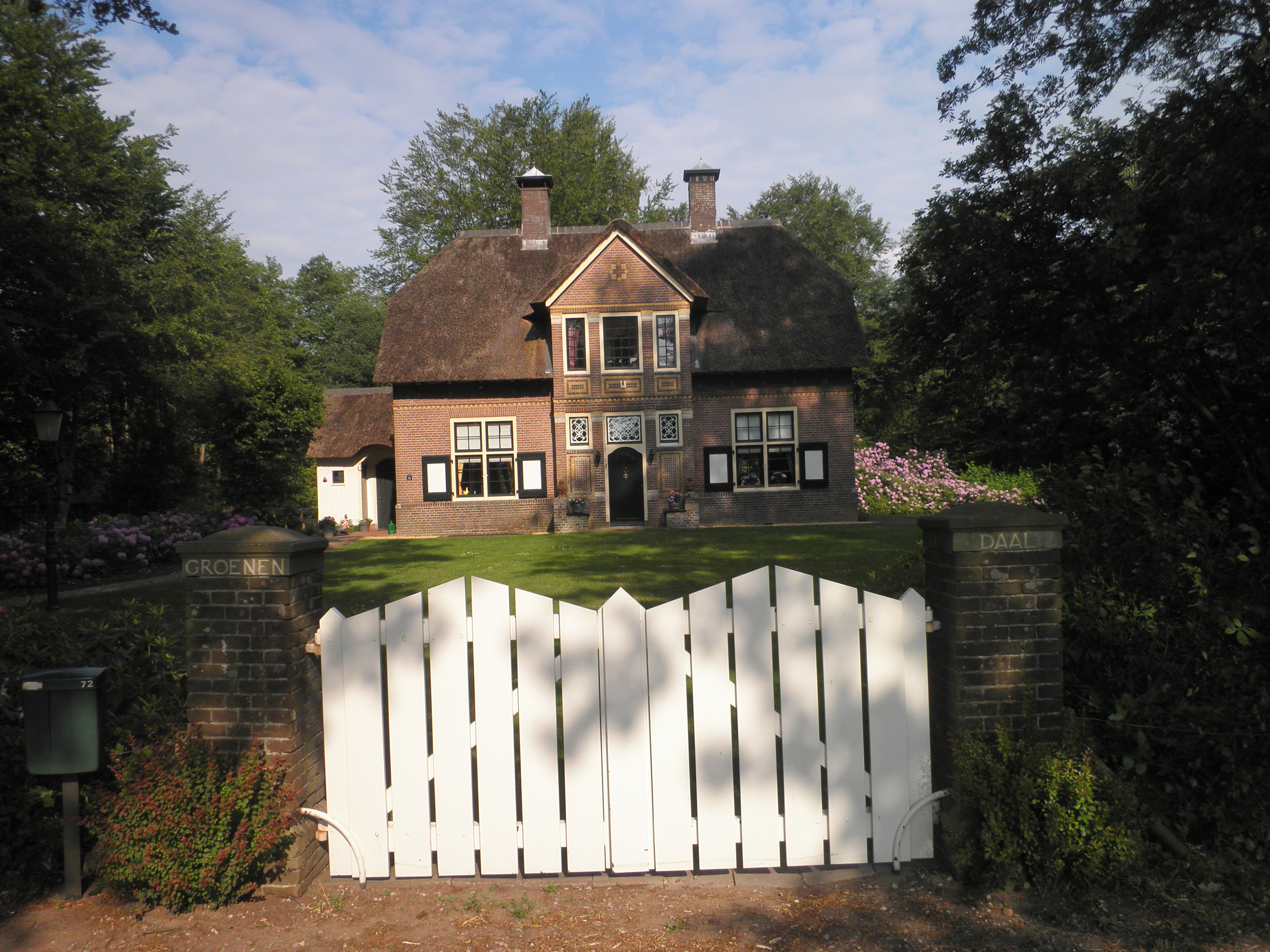 Groenendaal House, family house near Diepenveen, the Netherlands, built in 1909 after a design by Th. Rueter in Dutch "Arts and craft" style. Nationally listed heritage.